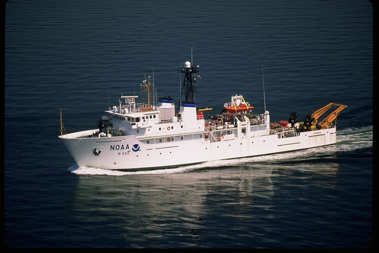 National Oceanic and Atmospheric Administration oceanographic research ship NOAAS Kaimimoana (R 333)